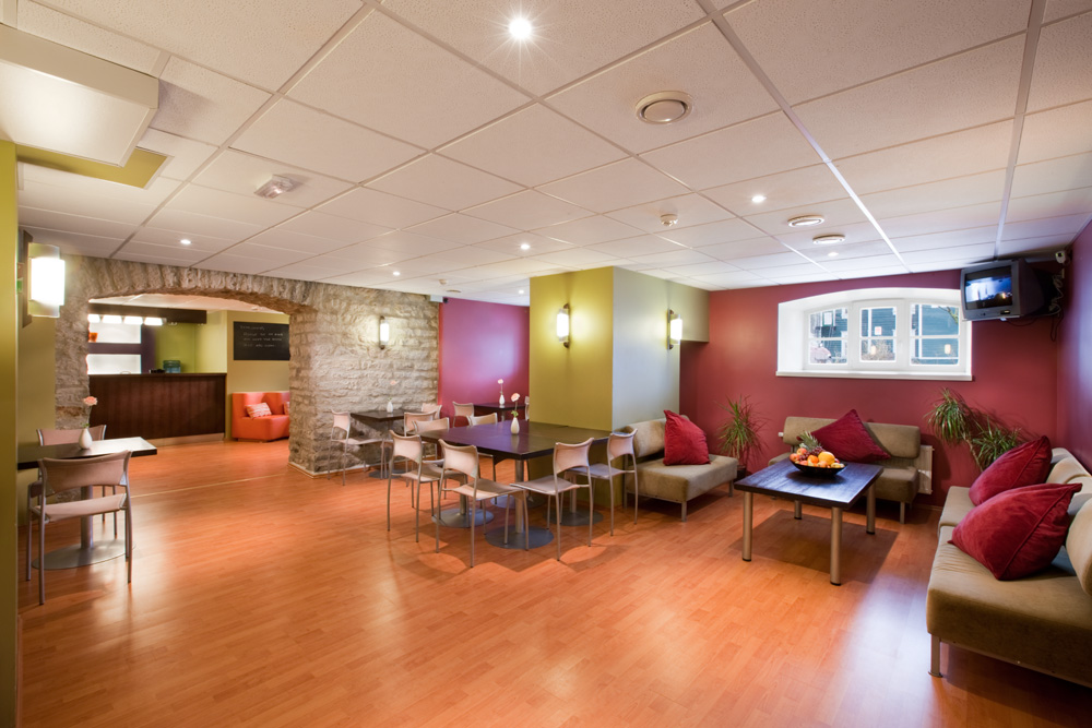 City Hotel Tallinn by Unique Hotels is a fresh, new value-concept hotel which offers accommodation at a significantly lower rate than the general price level.